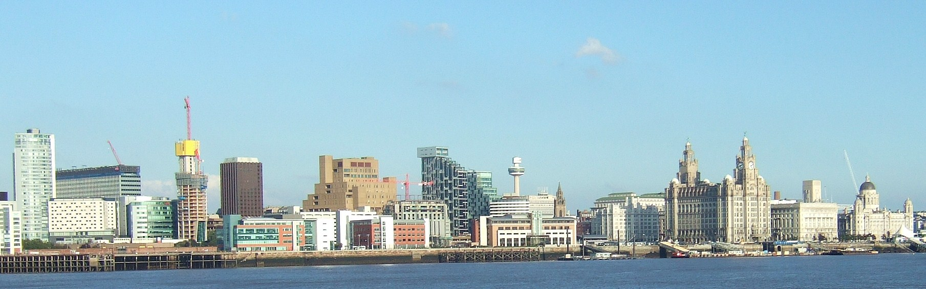 Image is of Liverpools' skyline.